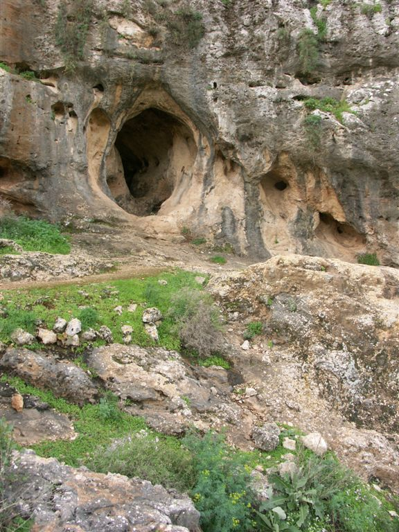 Skhul Cave, Mount Carmel, Israel